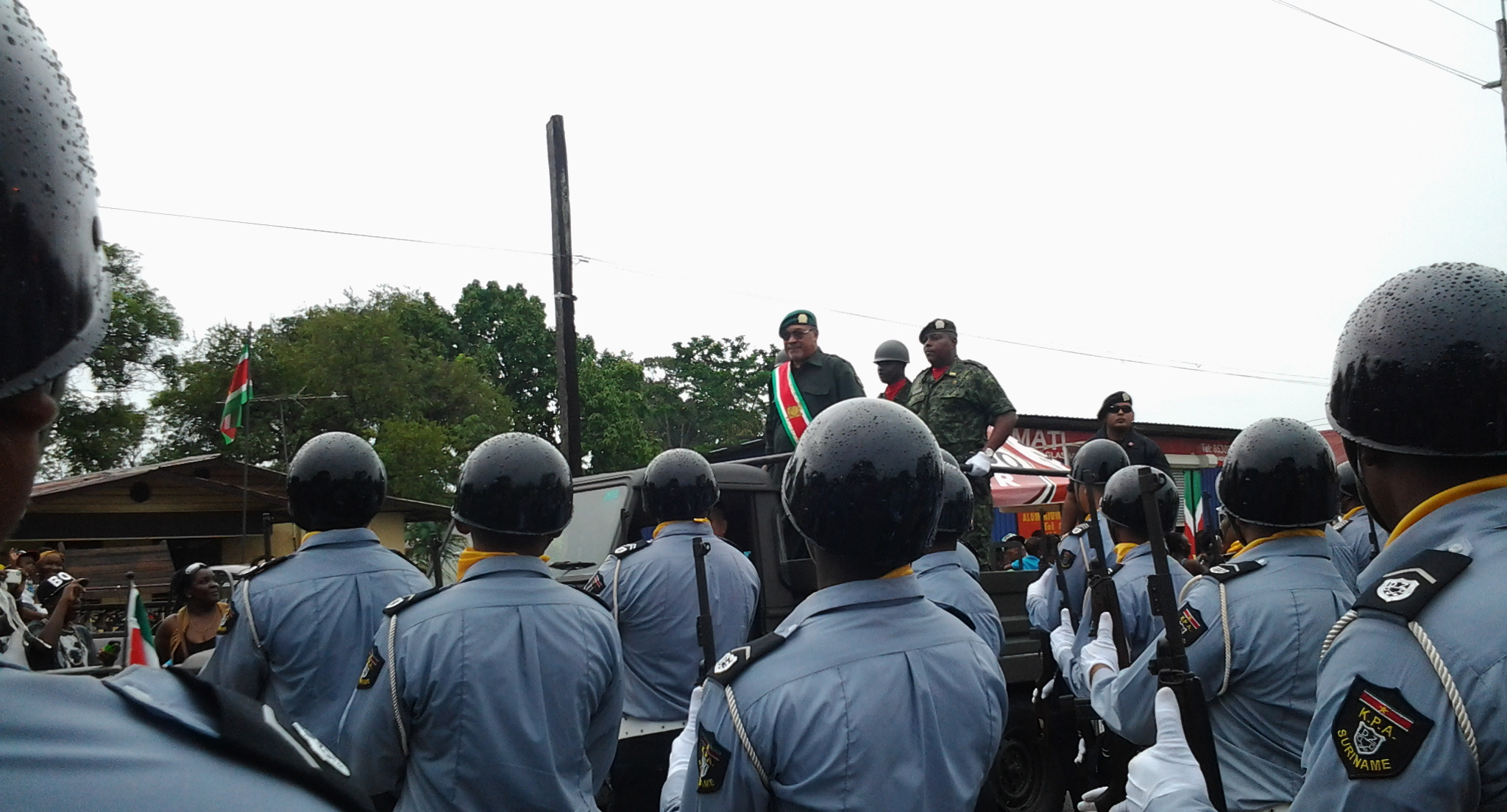 Suriname army